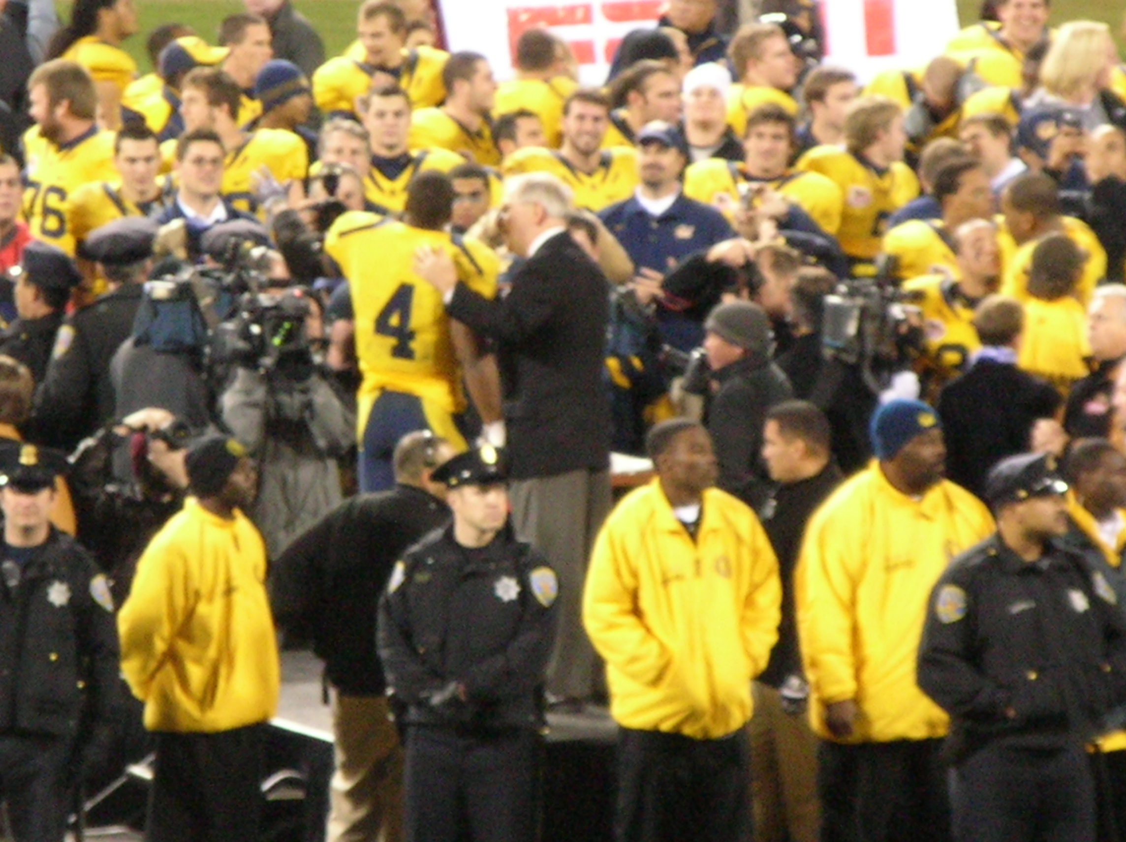 Cal running back Jahvid Best accepts the 2008 Emerald Bowl Offensive MVP trophy from Emerald Bowl Executive Director Gary Cavalli following the Golden Bears' victory over the Miami Hurricanes 24-17.